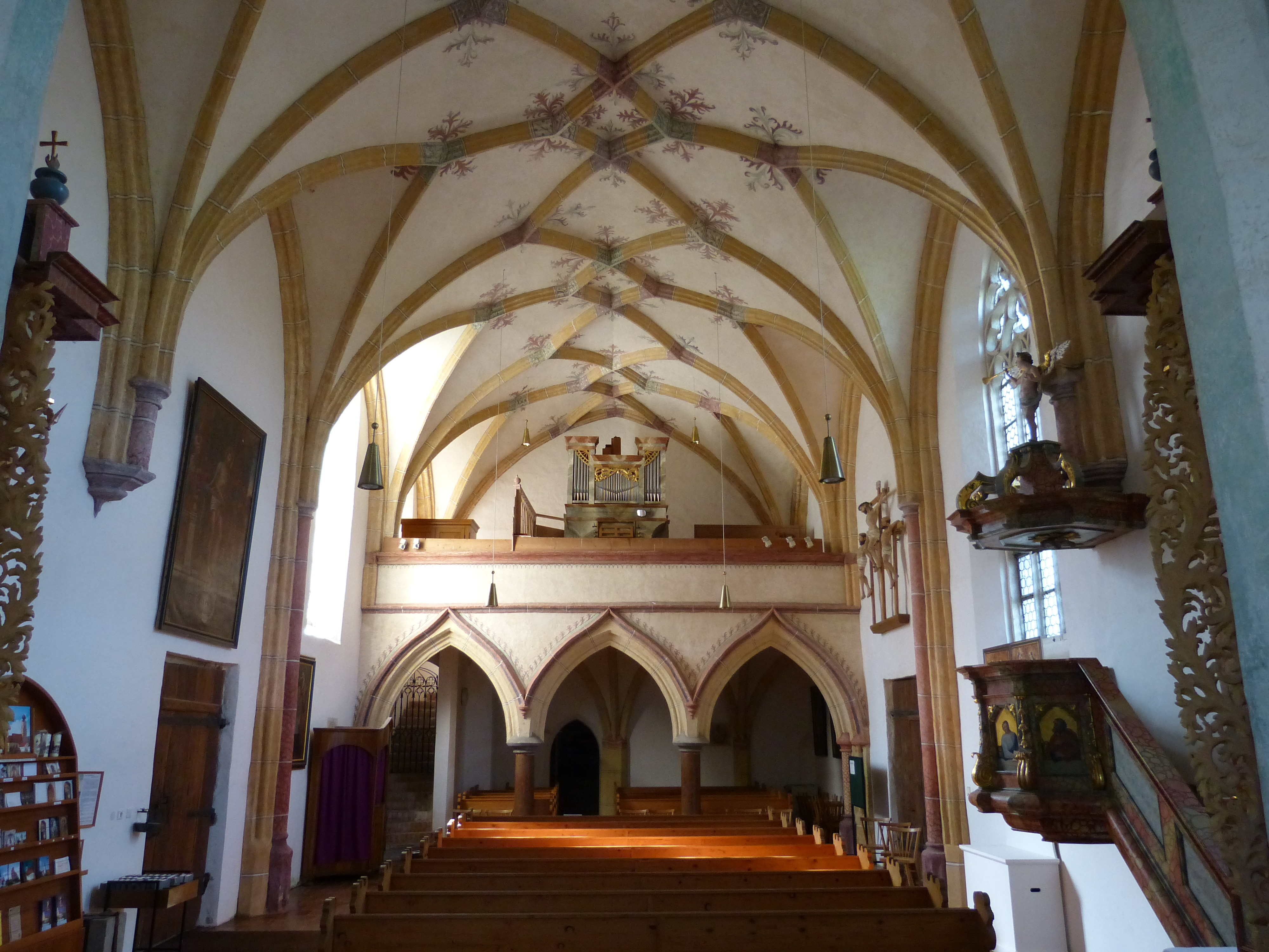 Grongörgen ( Lower Bavaria ). Saint Gregory church ( 1460 ): Interior.